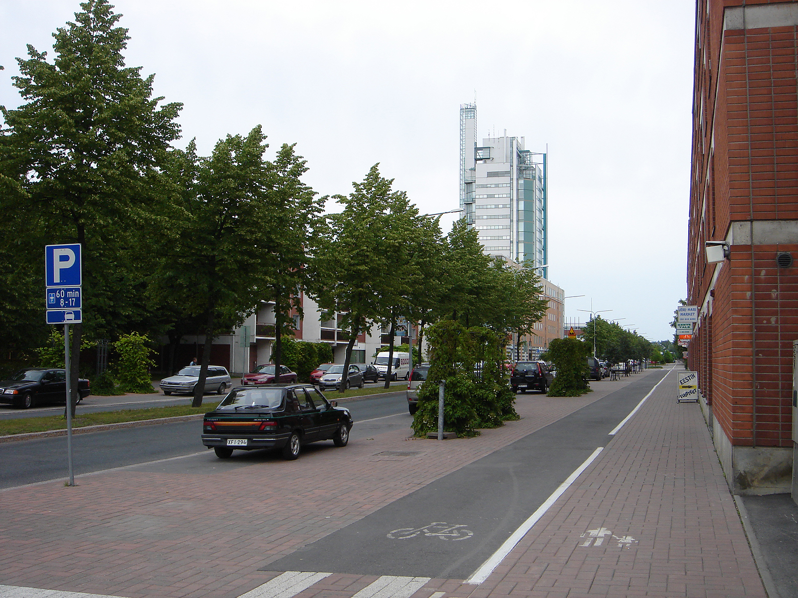 Kauppakartanonkatu street with Itäkeskuksen maamerkki tower, Itäkeskus, Helsinki